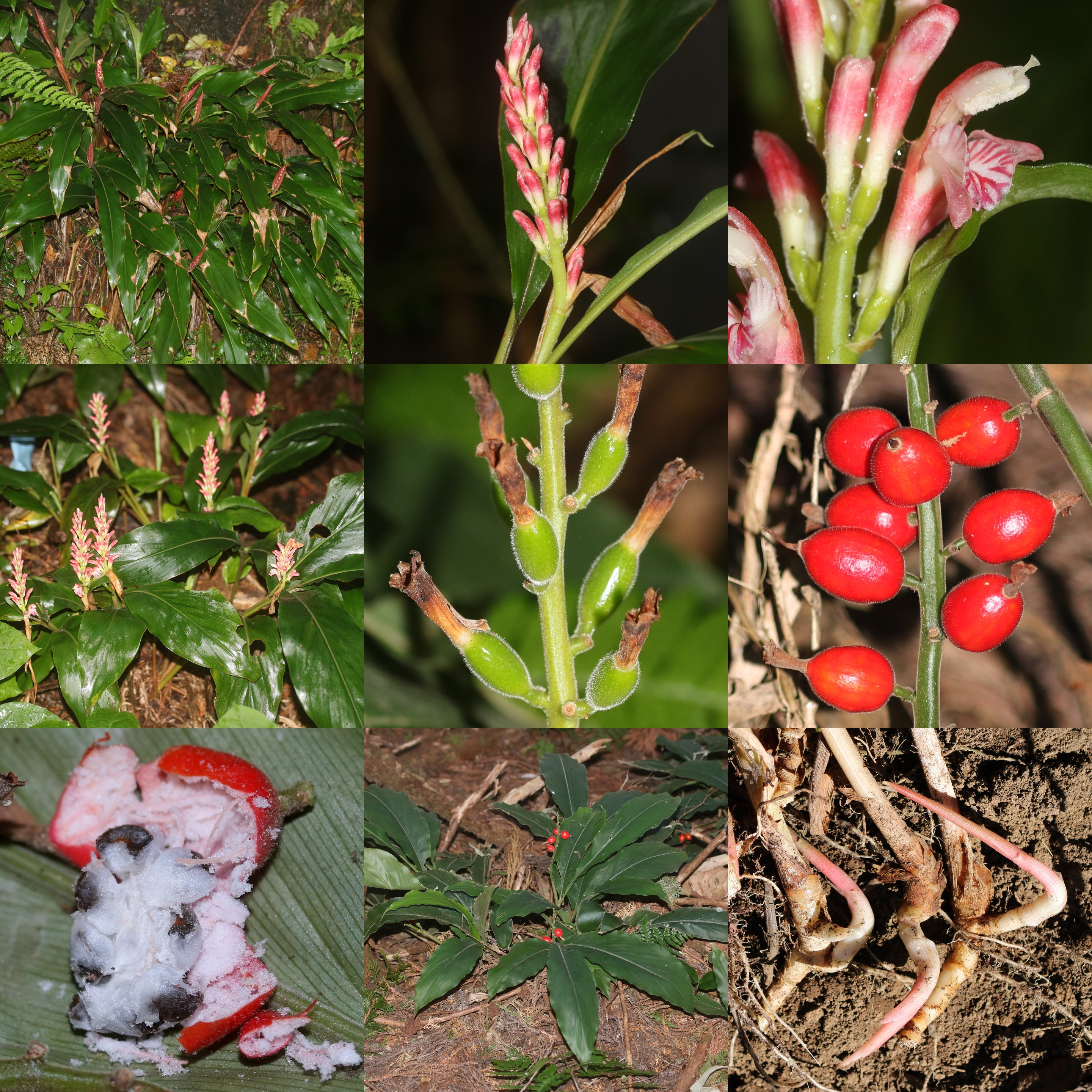 Montage of Alpinia japonica